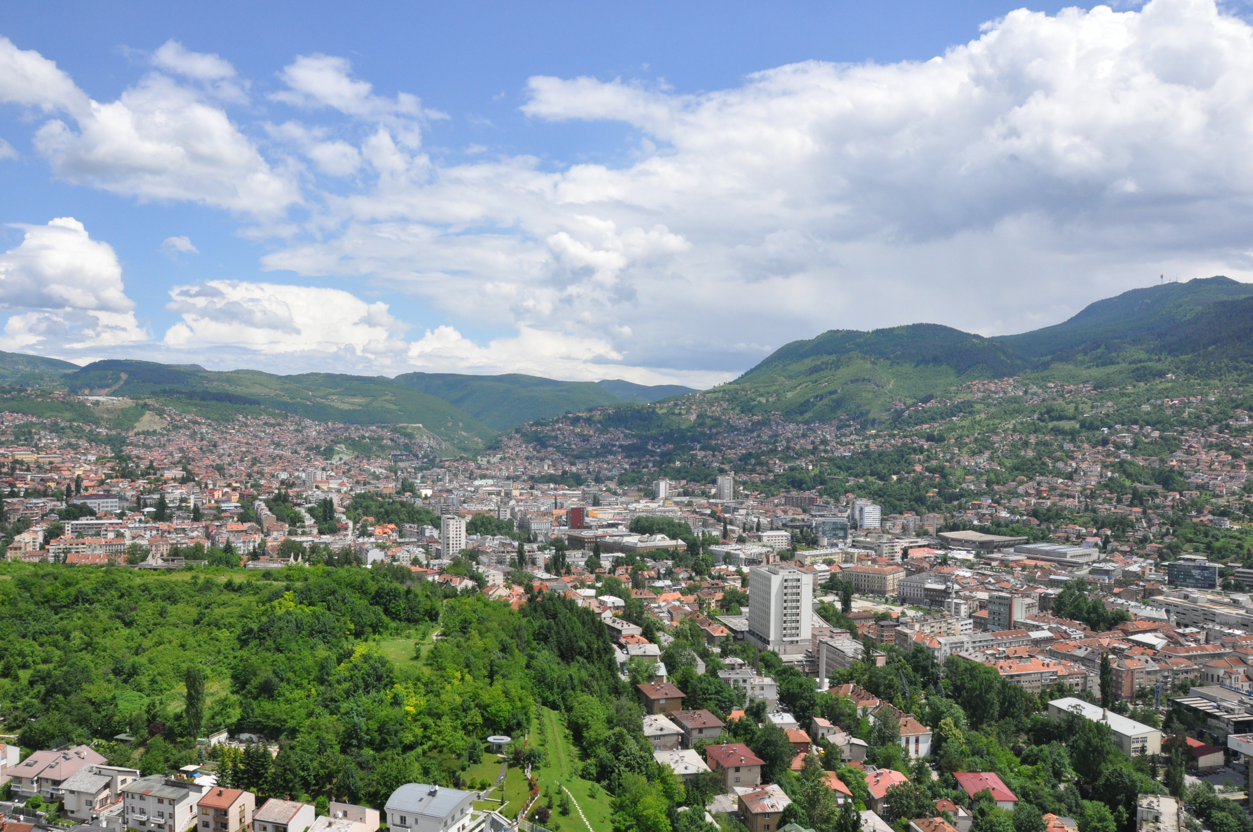 At 564 feet high, the Avaz Twist Tower is the tallest tower in Bosnia and Herzegovina and second tallest in the former Yugoslavia. Construction was completed in 2009.